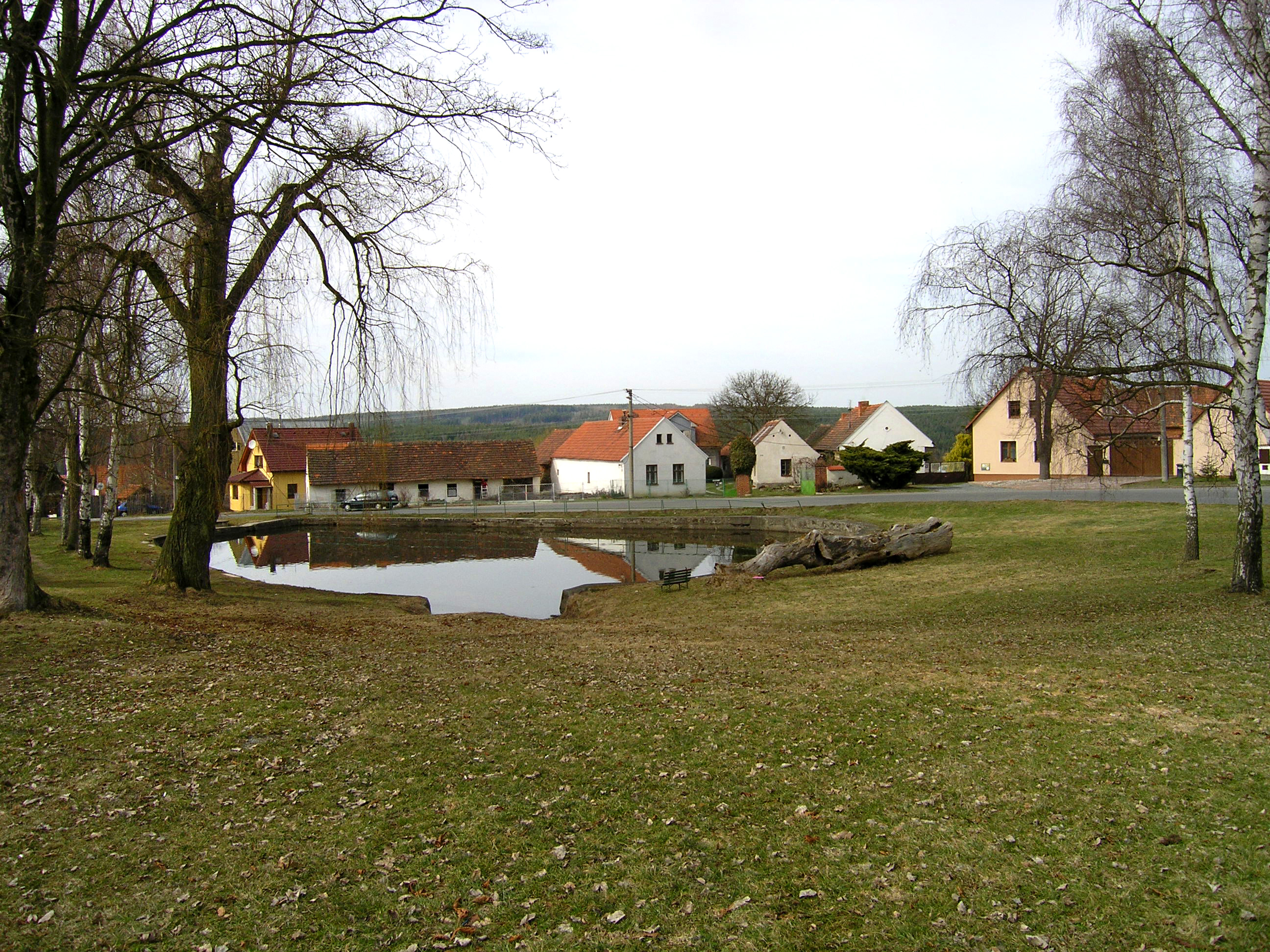 Common pond in Česká Bříza, Czech Republic